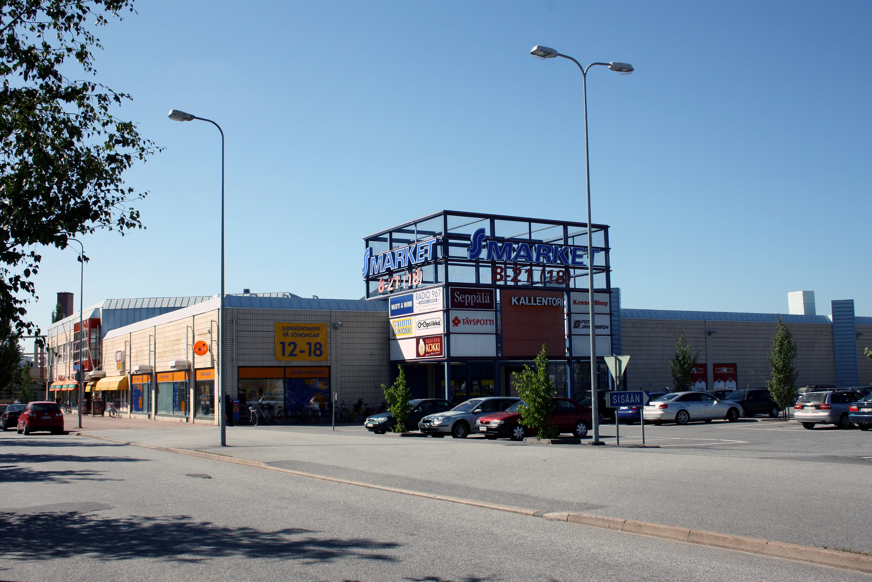 Kallentori Shopping Mall in Kokkola, Finland.